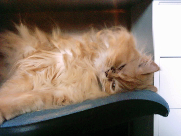 15 year old male cat named "Chapman af Leufsta". A red tabby Persian cat with orange eyes; hence this cat's EMS colour code is "PER d 21 62", according to the Easy Mind System by Fédération Internationale Féline